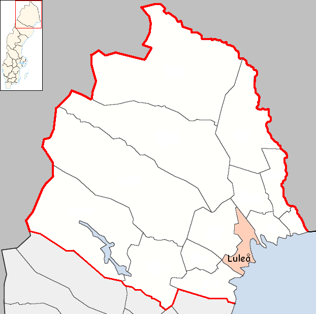 Luleå Municipality in Norrbotten County Designed by me. Mere outlines are a PD source from